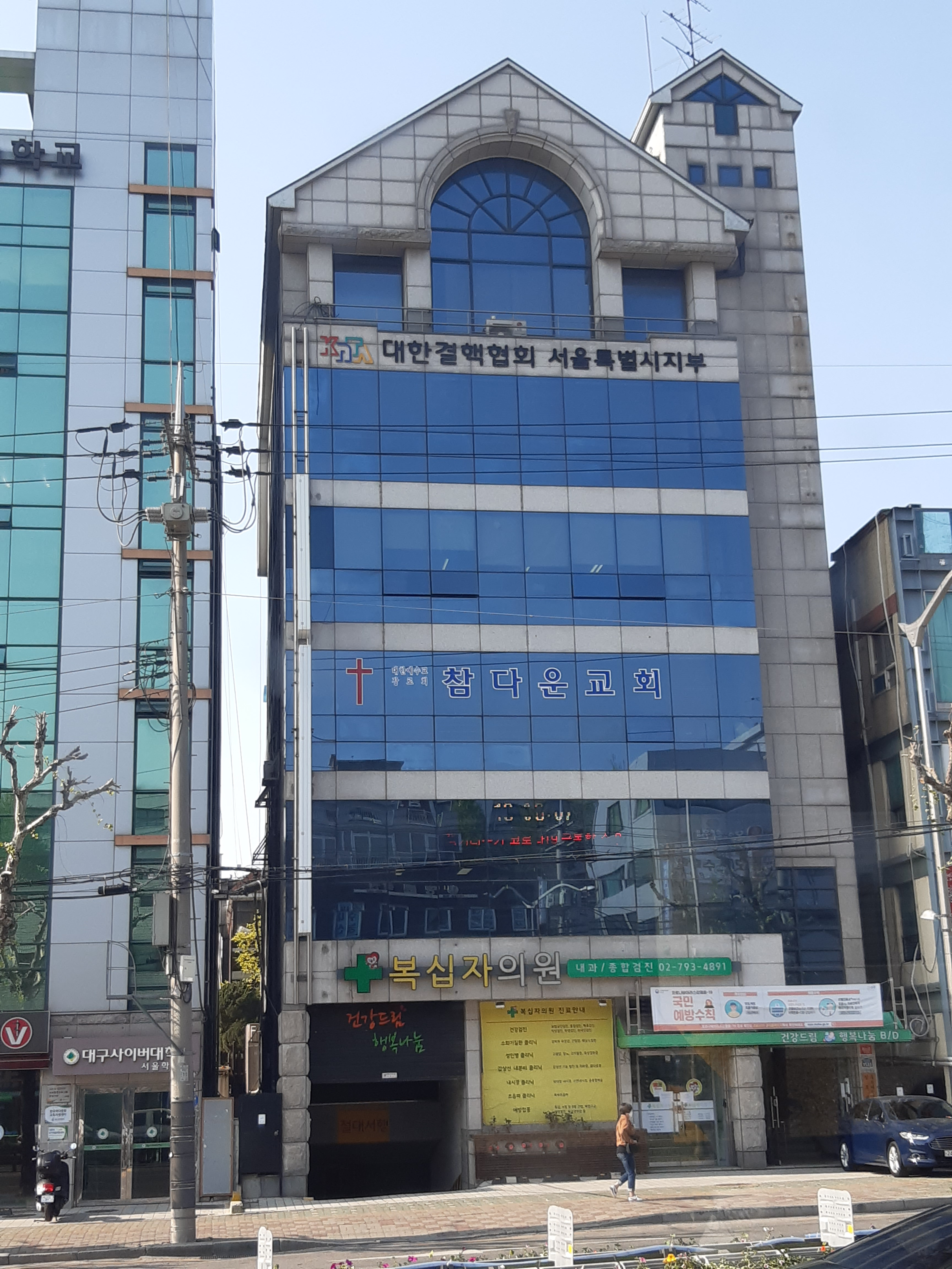 Korean National Tuberculosis Association (Seoul Branch)